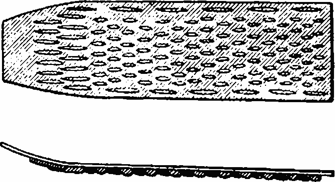 «Threshing Sled. Tunisian Exhibit. The implement, named mowrej by the Arabs, and tribulum by the ancient Romans, does not seem to have been changed in twenty-five hundred years. It is made of wooden boards turned up in front, and with spalls of flint set into the under surface. dragged over the flooring of grain. The implement was purchased for our National Museum and may be seen in Washington»